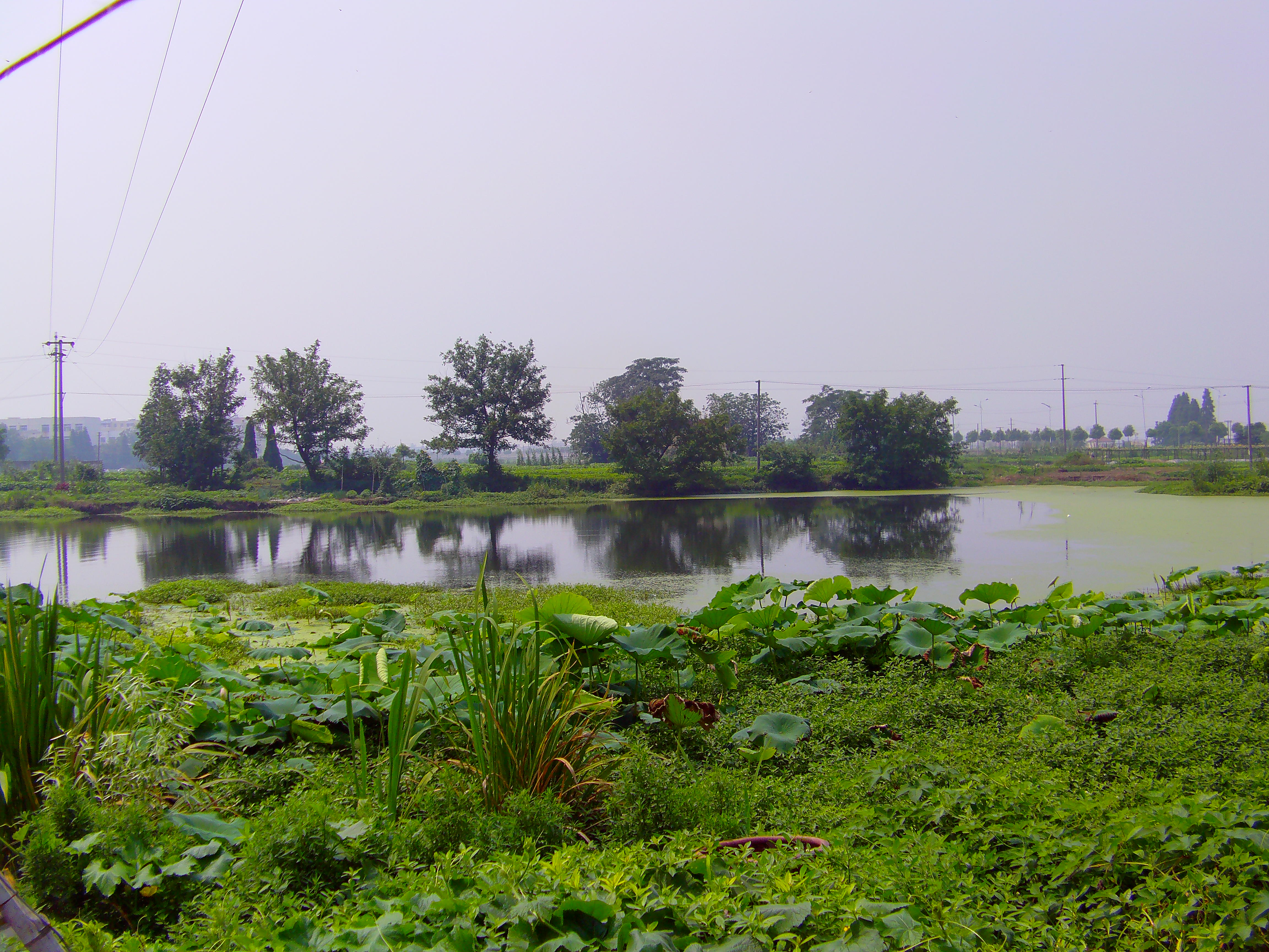 Hushu Town